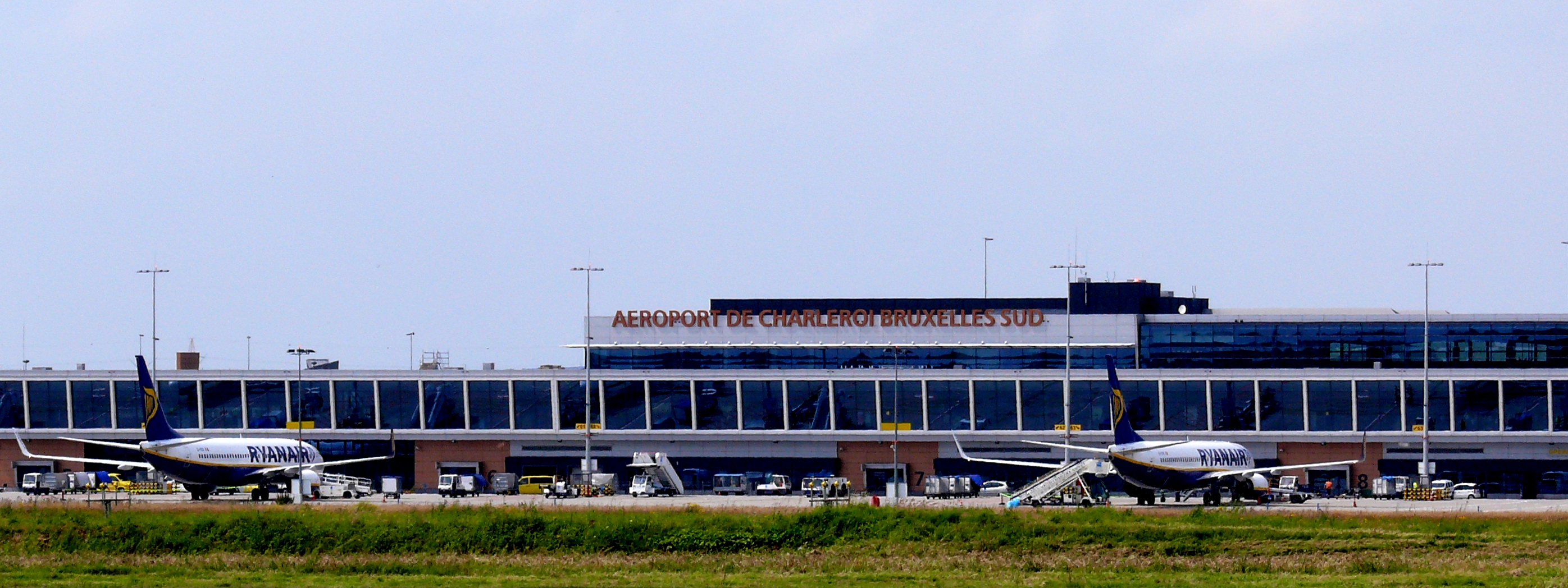 Brussels South Charleroi Airport.